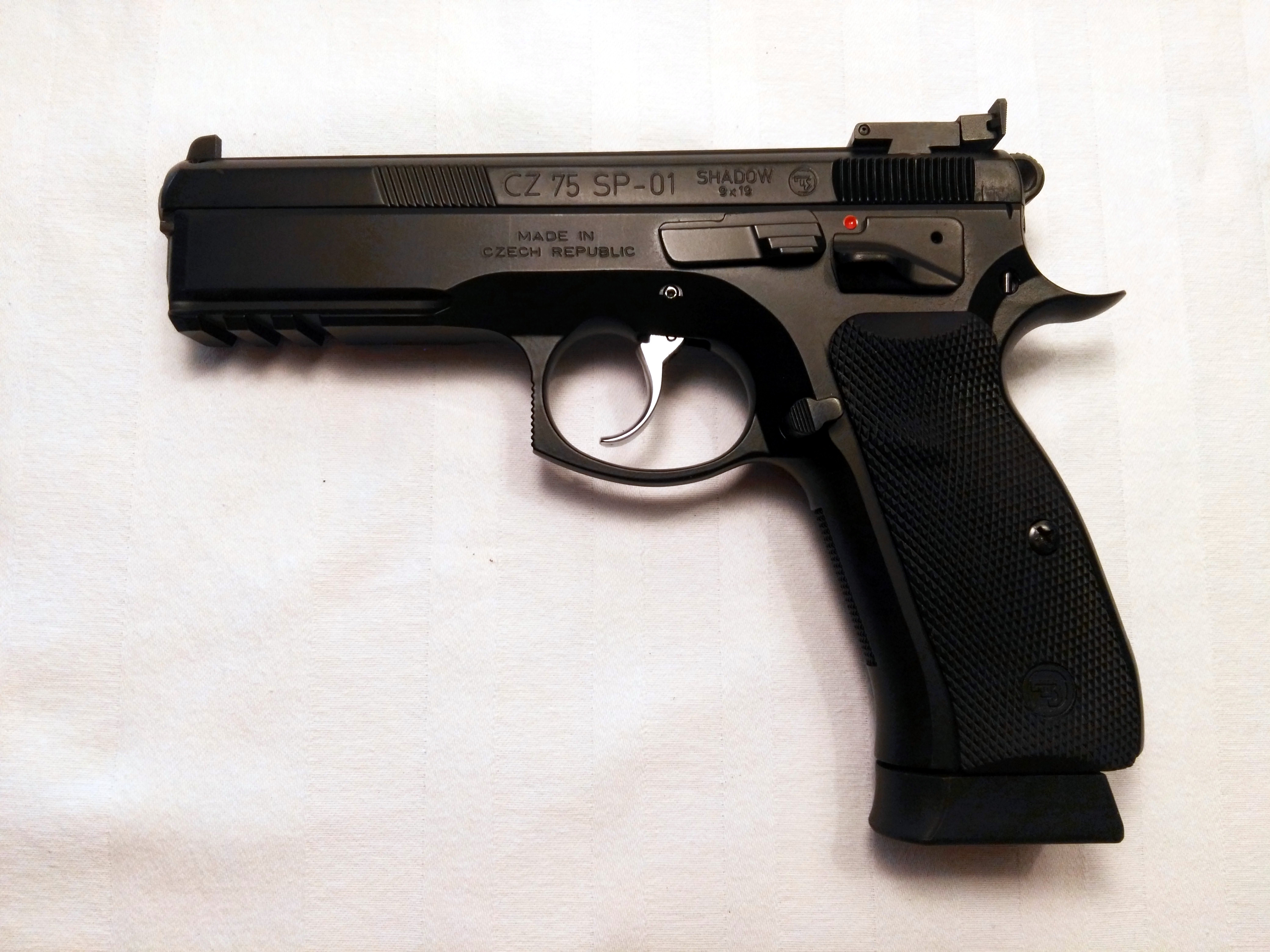 CZ 75 SP01 Shadow with adjustable rear sight